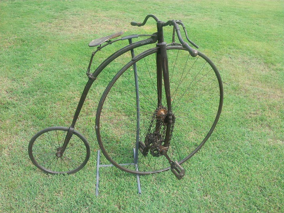 Chain drived penny-farting